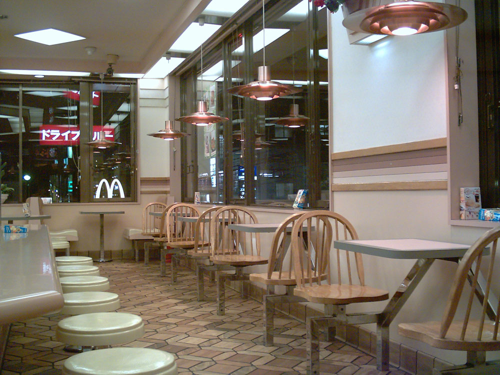 mcdonalds in Japan photography day, 2006/10/20 photography person kici